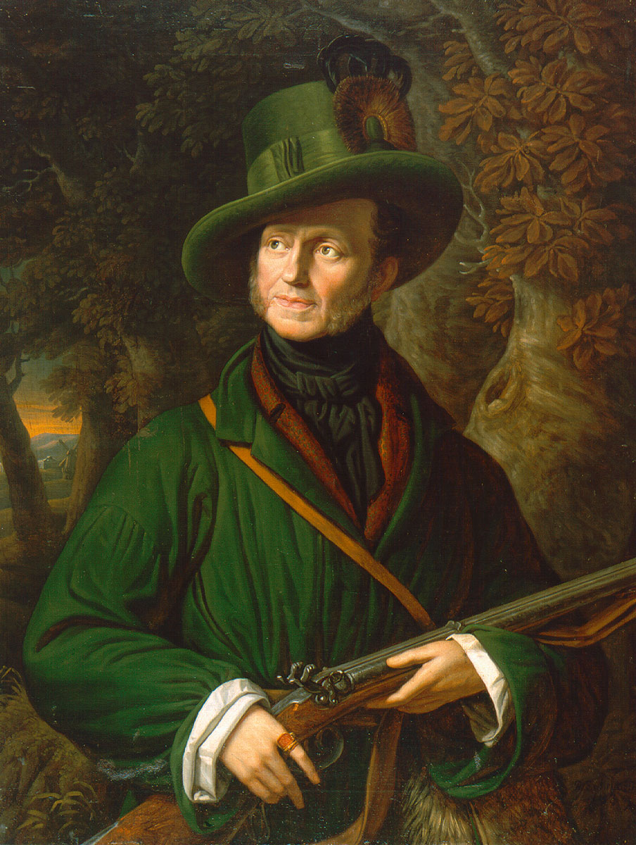 Herzog Gustav von Mecklenburg